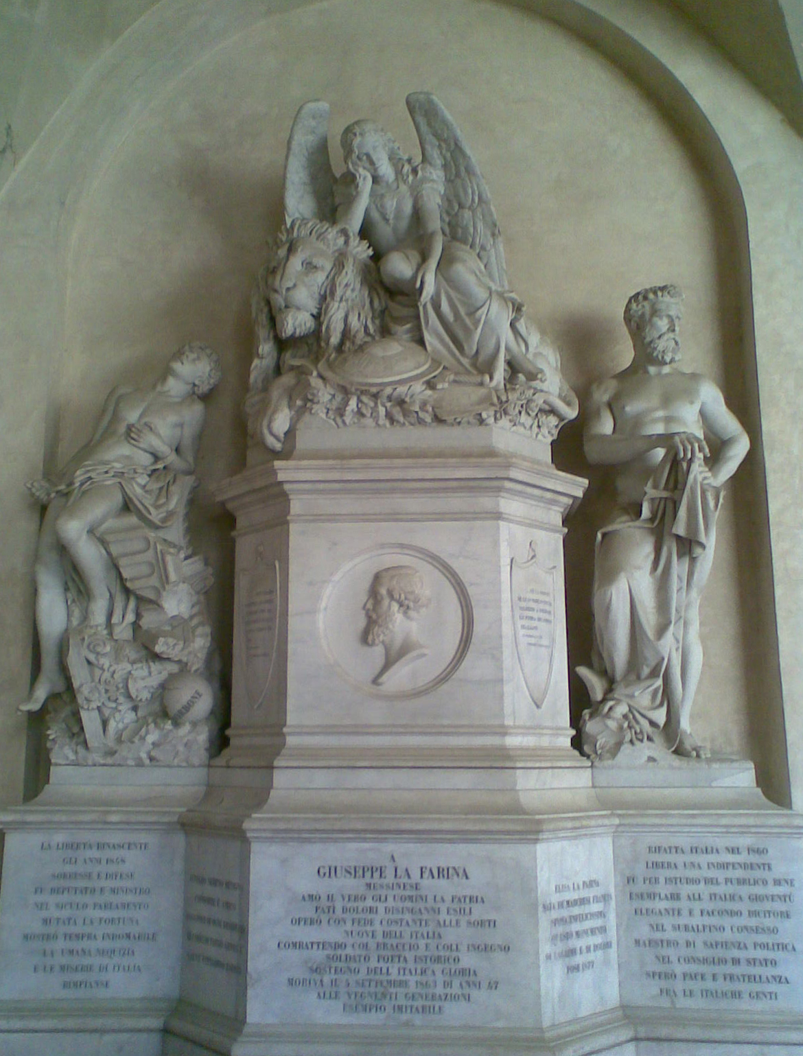 First Cloister of Santa Croce church in Firenze, Italy: Cenotaph of Italian poet and patriot Giuseppe La Farina